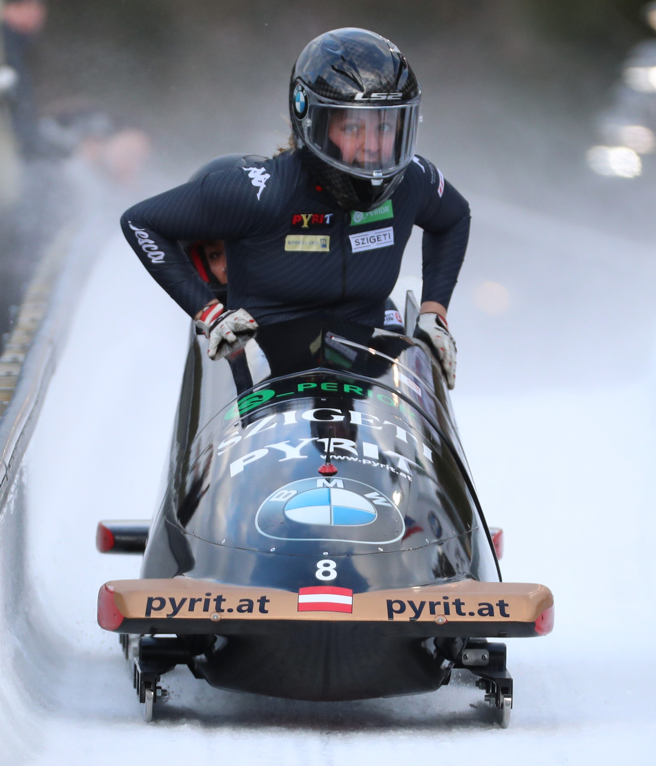 2nd run at the 2-woman bobsleigh at the Bobsleigh and Skeleton World Championships 2020 in Altenberg